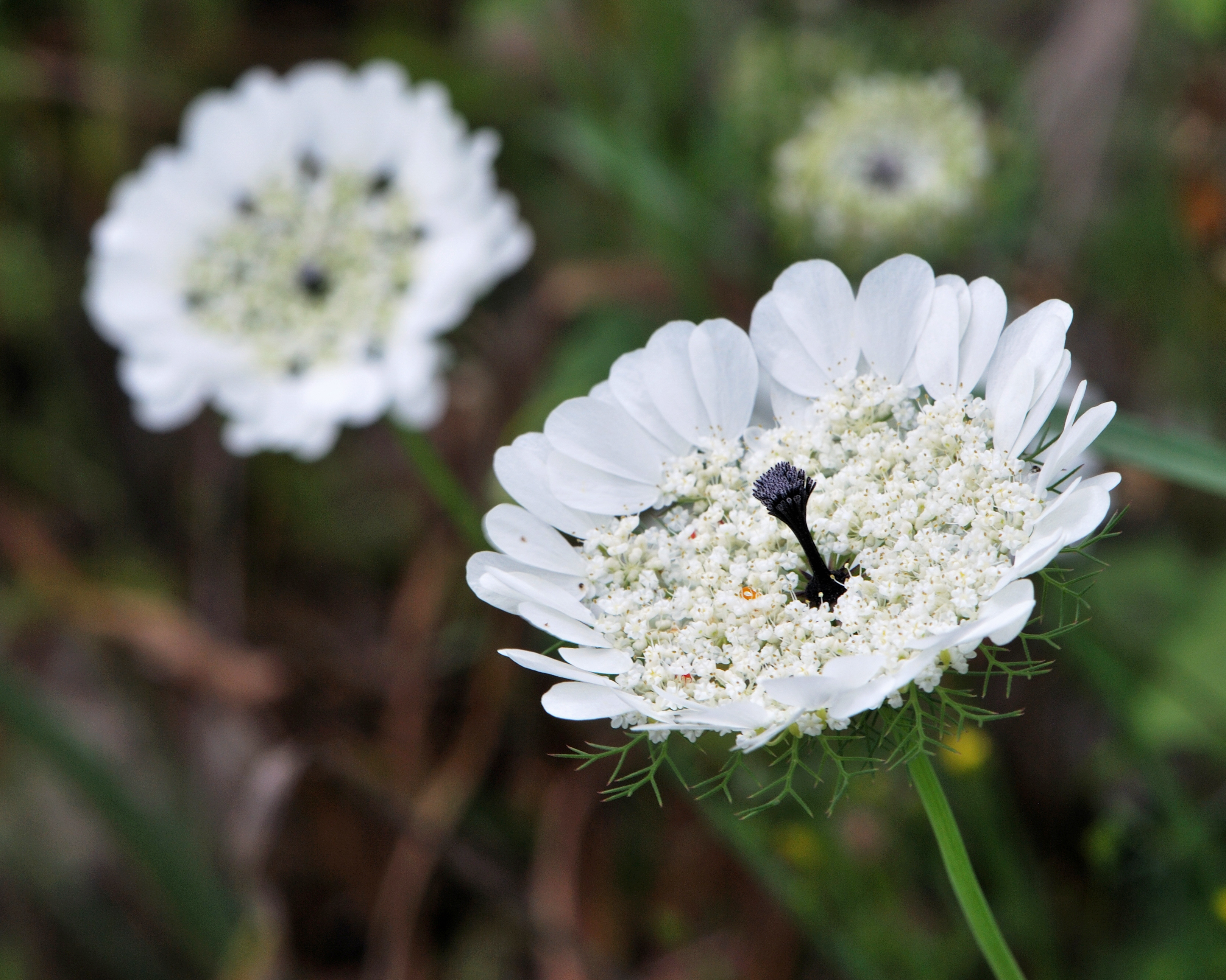 Artedia squamata in bloom, Nahal Oren, Mount Carmel, Israel, May 3, 2011.